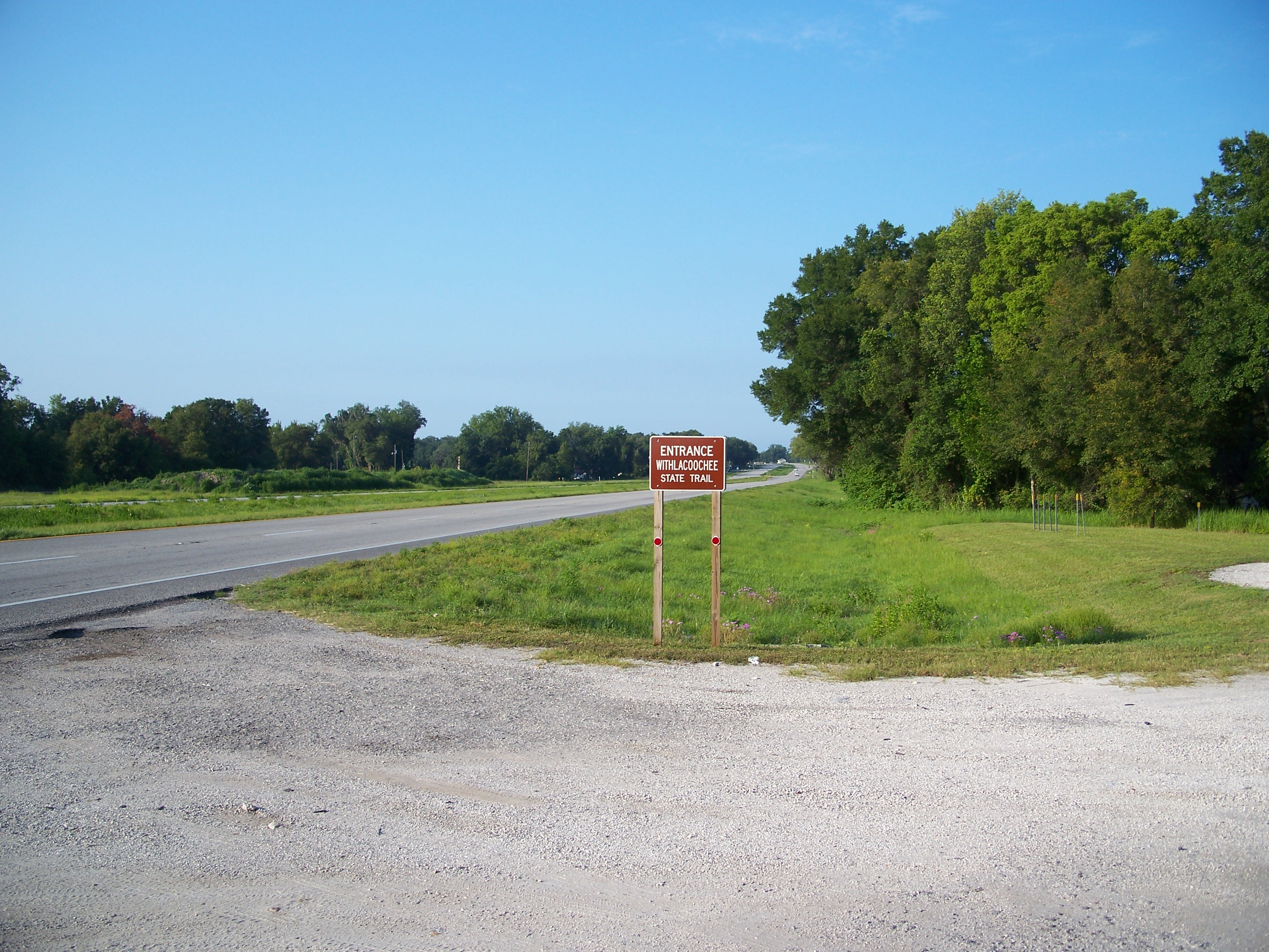 Withlacoochee State Trail: Entrance to the southern end of the trail, off US 301